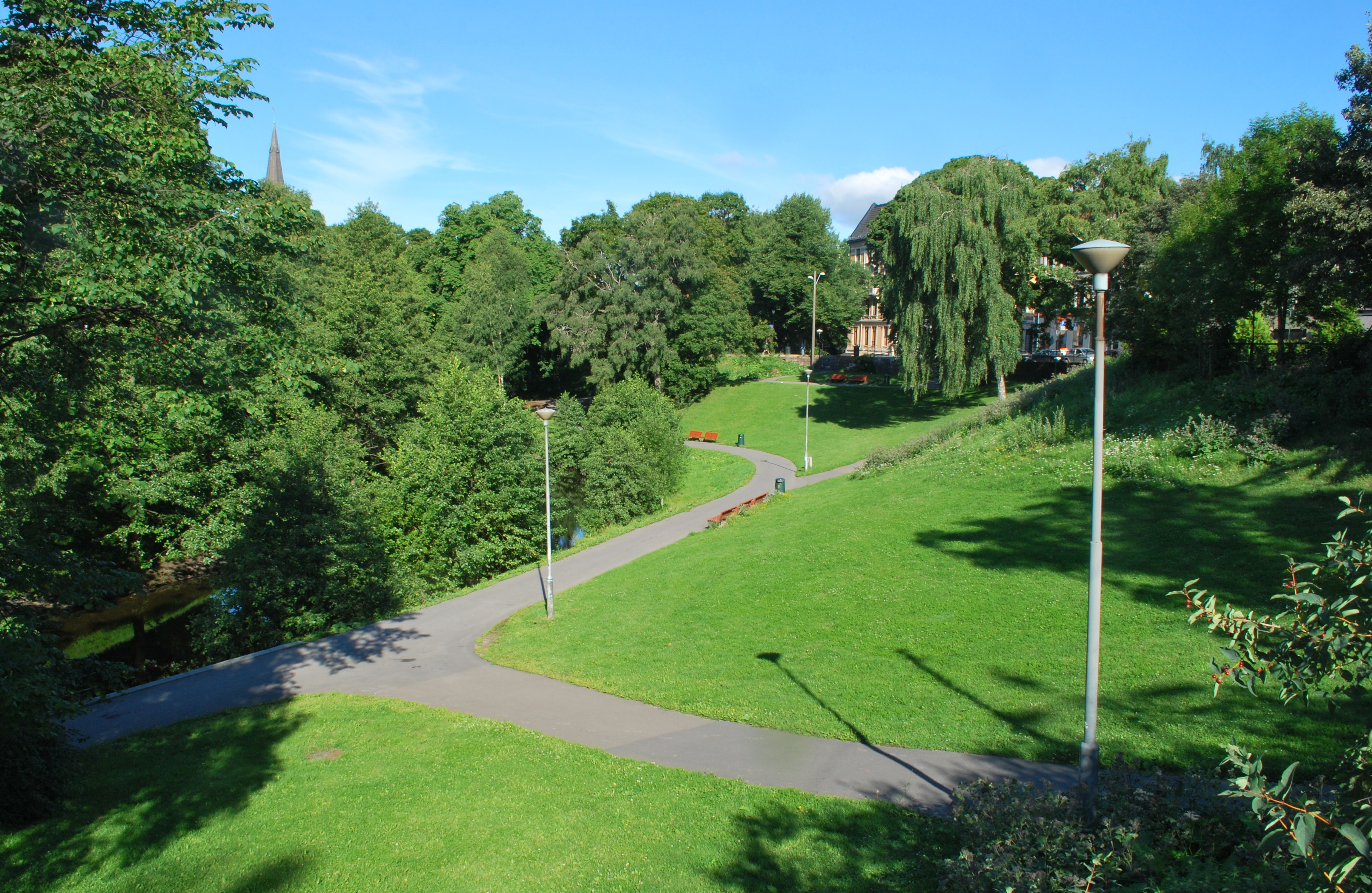 Parway along Akerselva, between Nybrua and Ankerbrua, Oslo, Norway